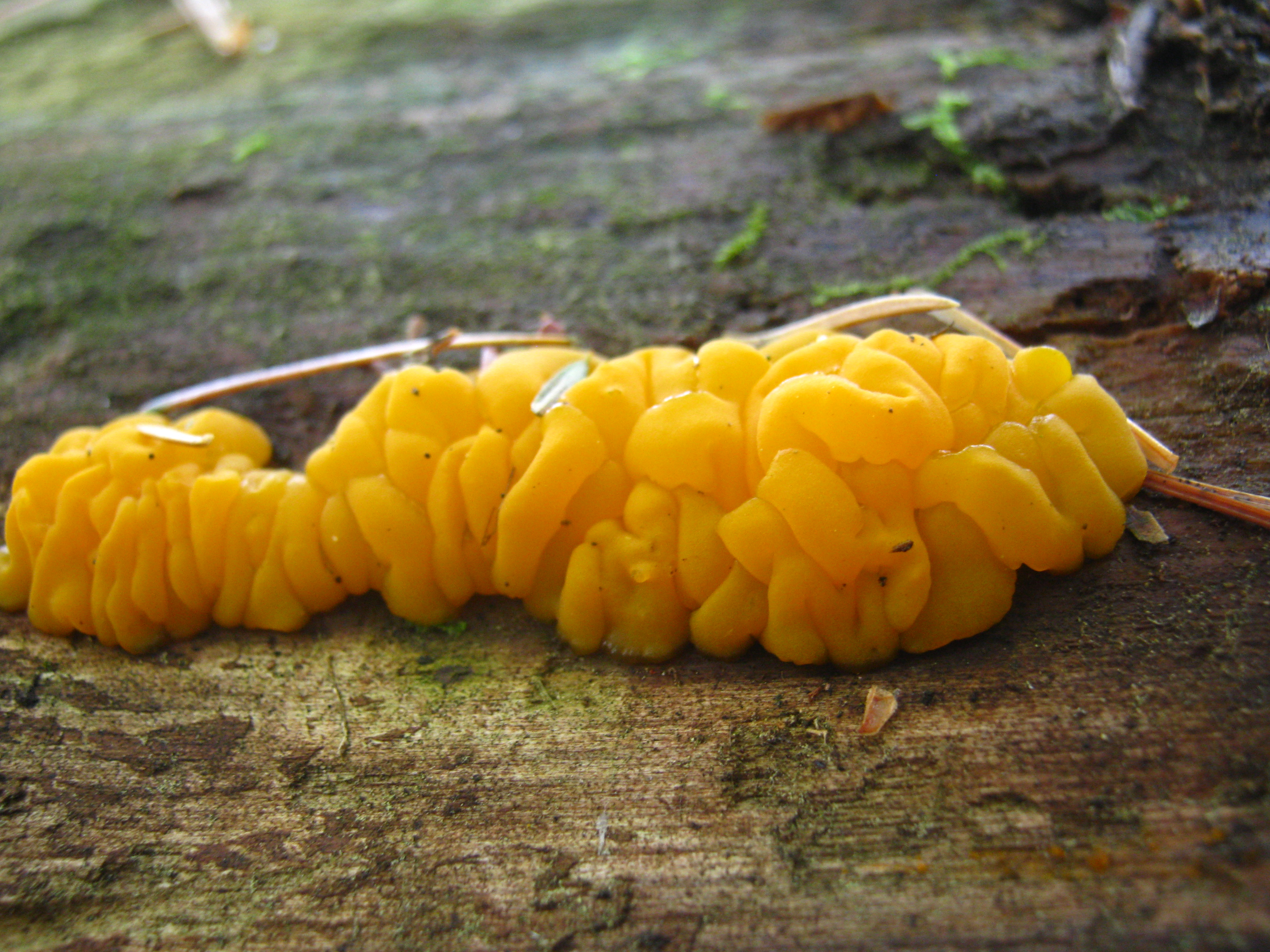 Dacrymyces palmatus (Schwein.) Burt Location: Forest near Elgin Street, Pembroke, Ontario, Canada Observation Notes: On rotting pine in Zone 04. For more information about this, see the observation page at Mushroom Observer.